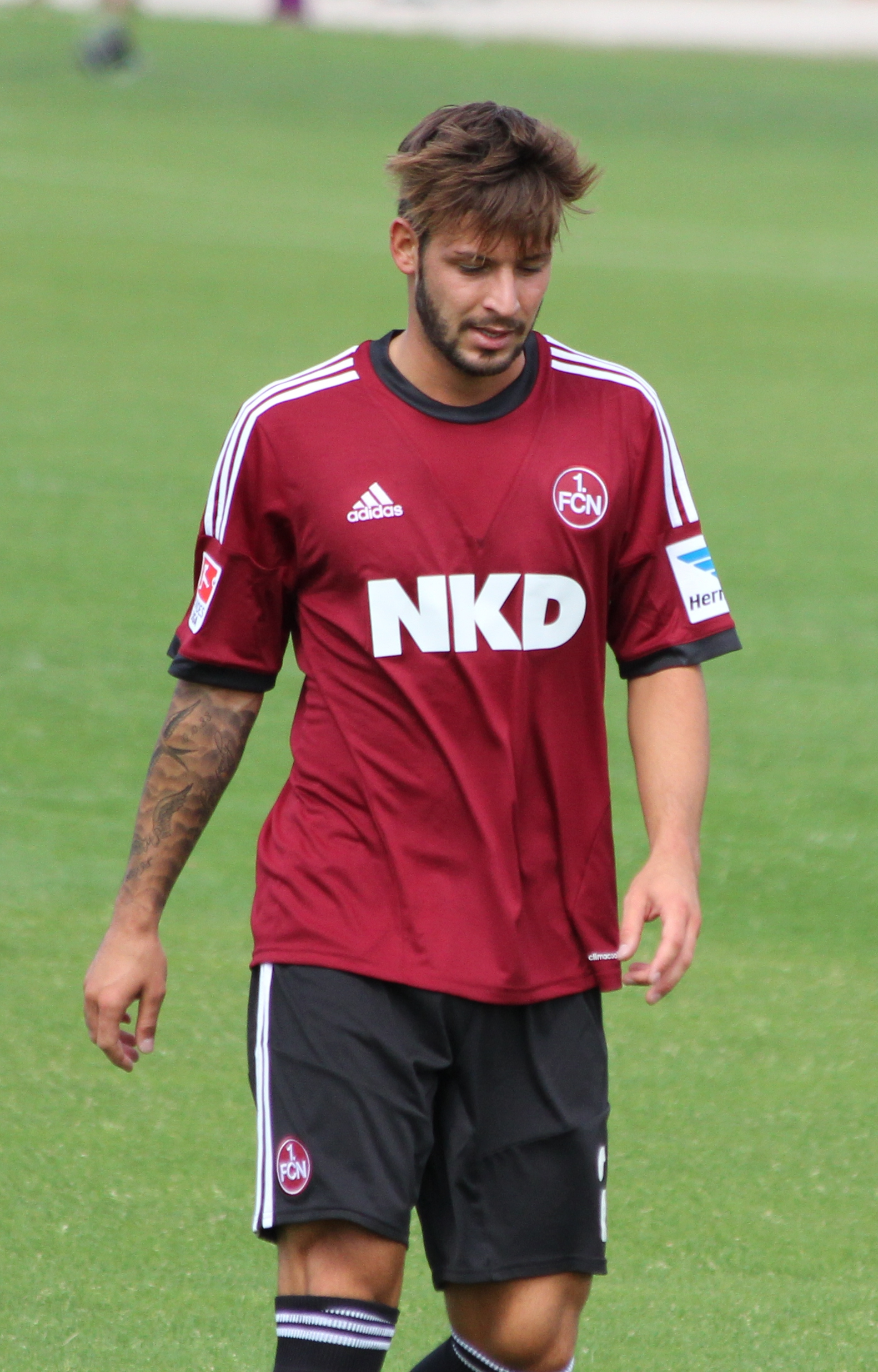 Marvin Plattenhardt, football player for German side 1. FC Nürnberg, 2013/14 season, first training session